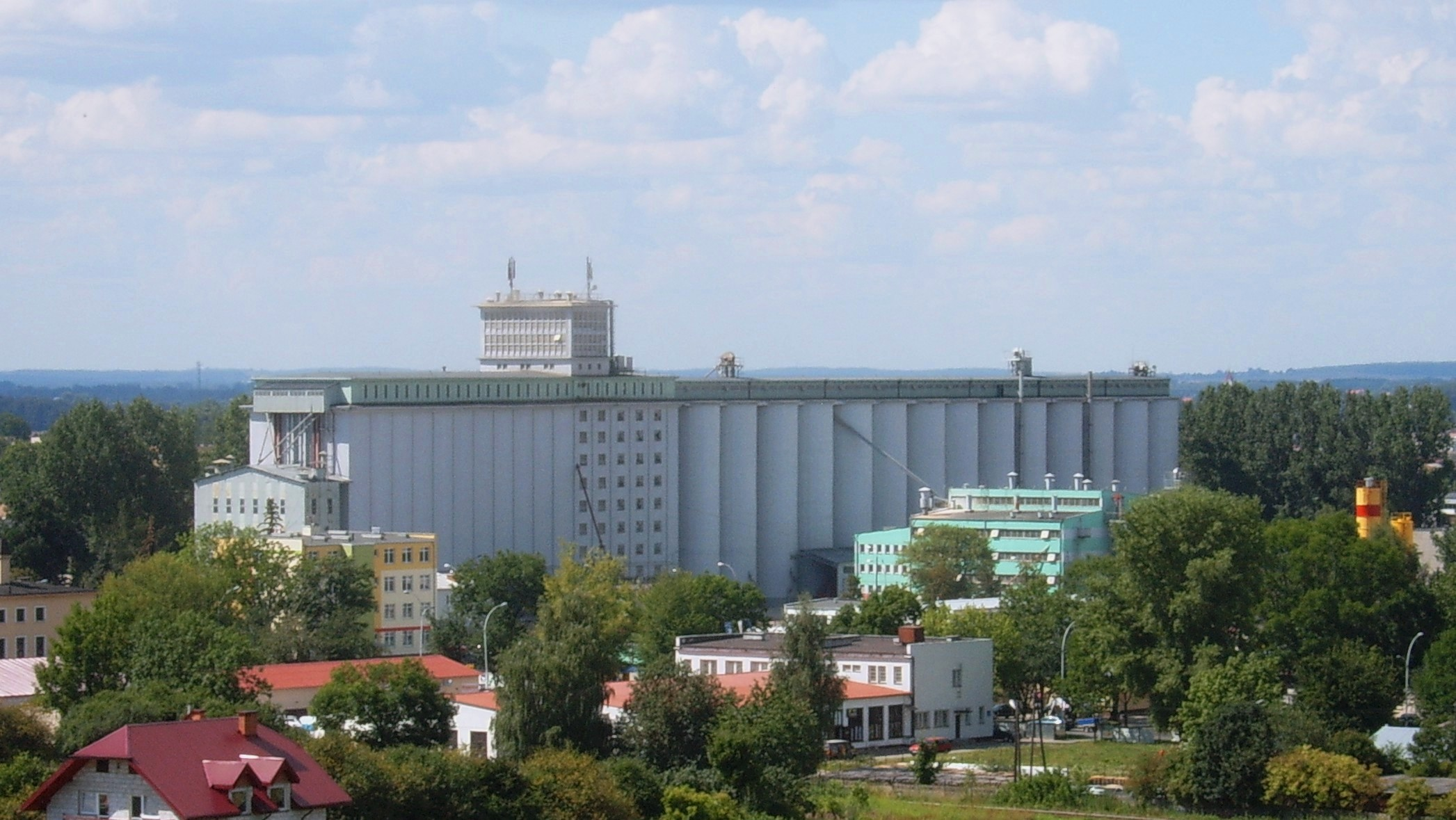 Cereal works in Zamość